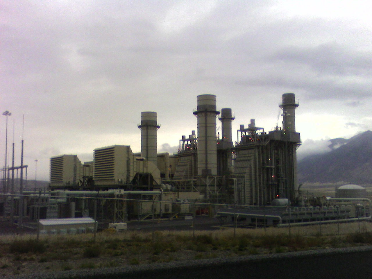 Currant Creek Power Plant by David Jolley 2007.